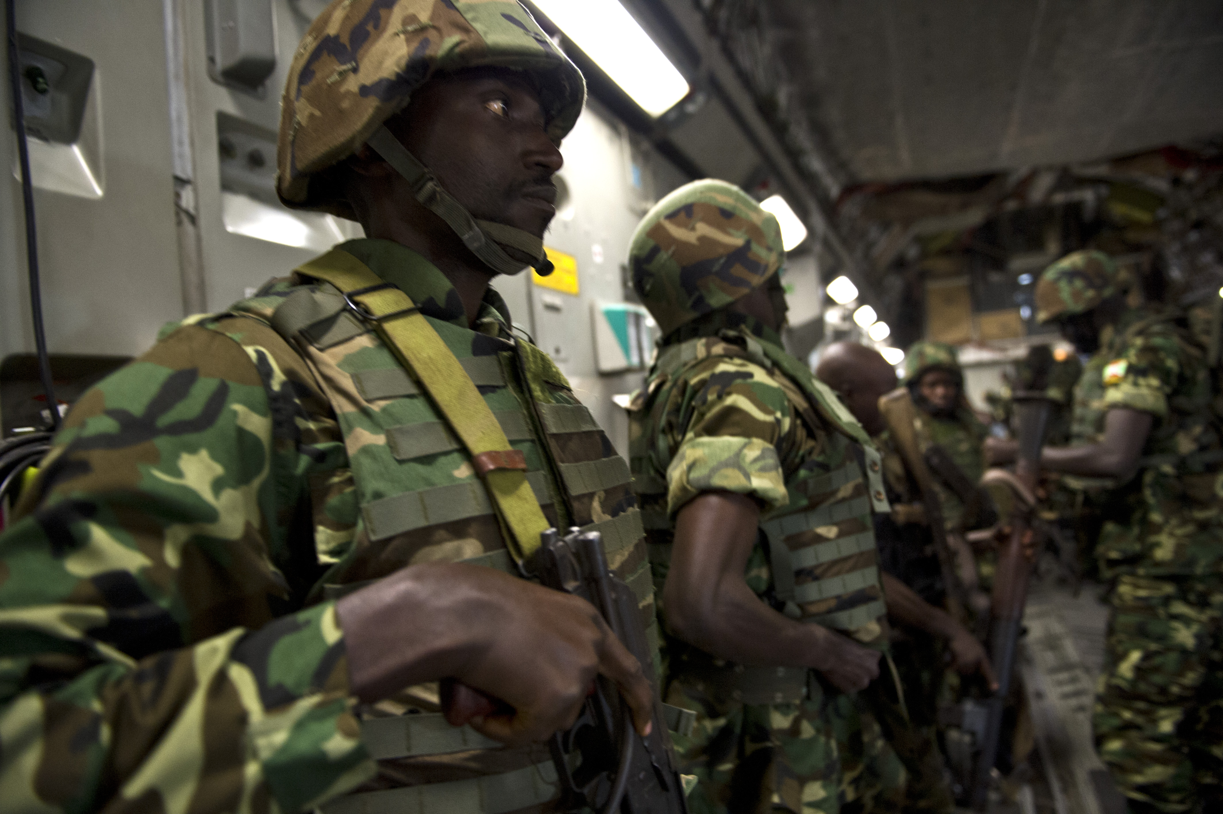 Burundian soldiers prepare to exit a U.S. Air Force C-17 Globemaster III aircraft at Bangui M'Poko International Airport in Bangui, Central African Republic, Dec. 13, 2013. U.S. military aircraft were dispatched to transport Burundian forces to Bangui in support of an African Union effort to quell violence there.